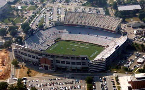 This photo of Jordan-Hare Stadium was taken in September of en:2005. I am the author and I release it to the public domain. User:AuburnPilot 03:26, 30 October 2006 (UTC)